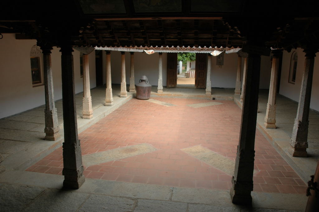 An inside view of Tamil house. The house was reconstructed at Dakshina Chitra, Chennai.